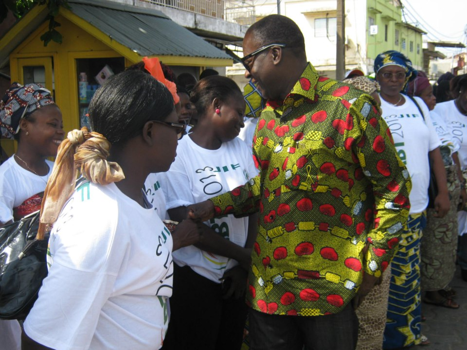 Journée internationale de la femme